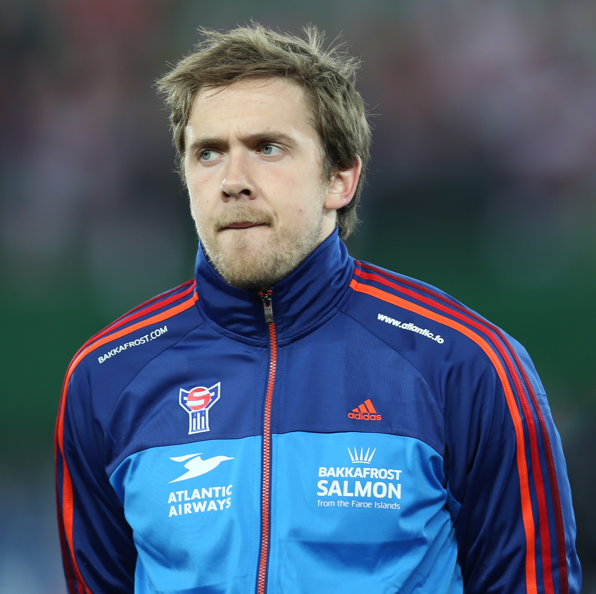 2014 FIFA World Cup qualification (UEFA), Group C: Faroer Islands national football team at 22. March 2013 before the match against the Austria national football team (0:6) in the Ernst-Happel-Stadion in Vienna. Gunnar Nielsen, goalkeeper of Faroe Islands. The making of this work was supported by Wikimedia Austria. For other files made with the support of Wikimedia Austria, please see the category Supported by Wikimedia Österreich.